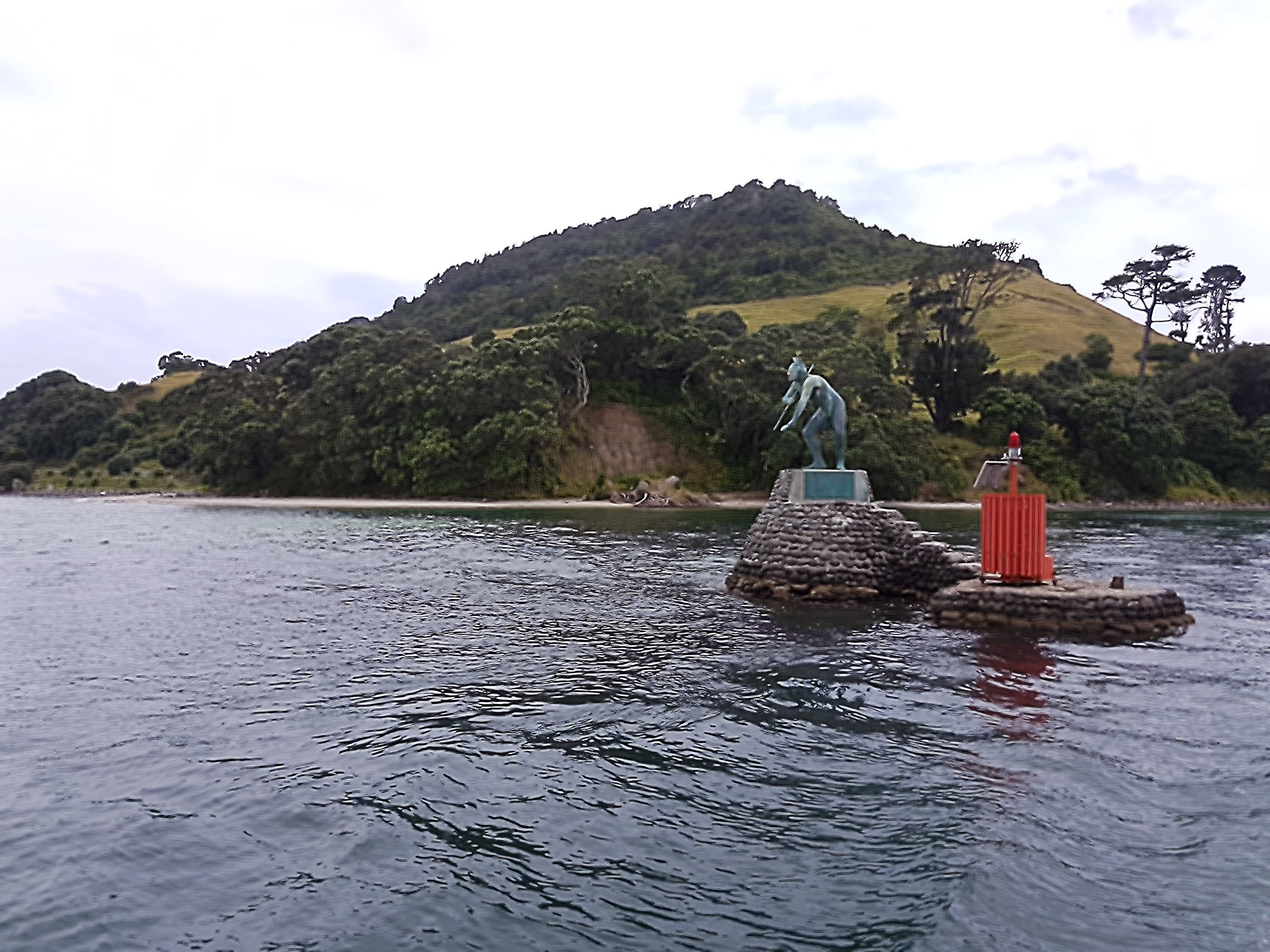 Frank Szirmay'a representation of Tangaroa in Bronze with Mount Maunganui in the background from the Matakana Island Ferry, New Zealand